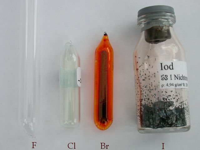 Assortment of halogene group elements.